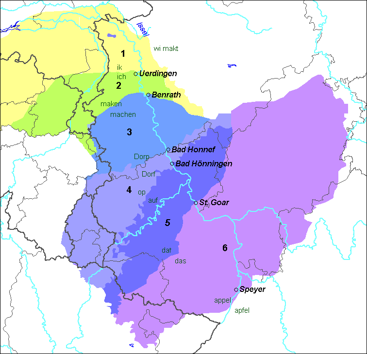 Map of the Rheinischer Fächer (Rhenish fan) subdivision of German dialects by Georg Wenker 1877